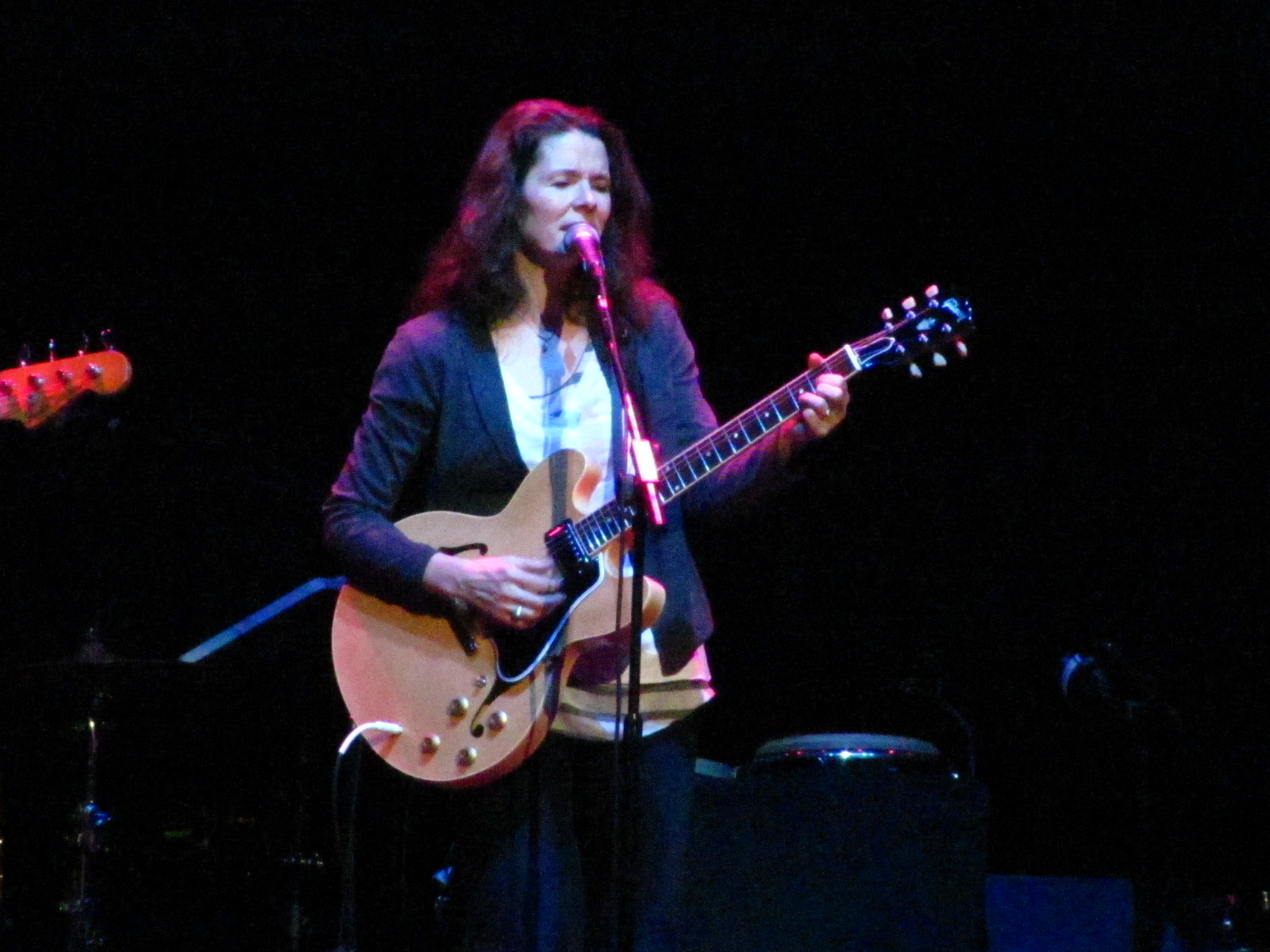 Edie Brickell in concert.